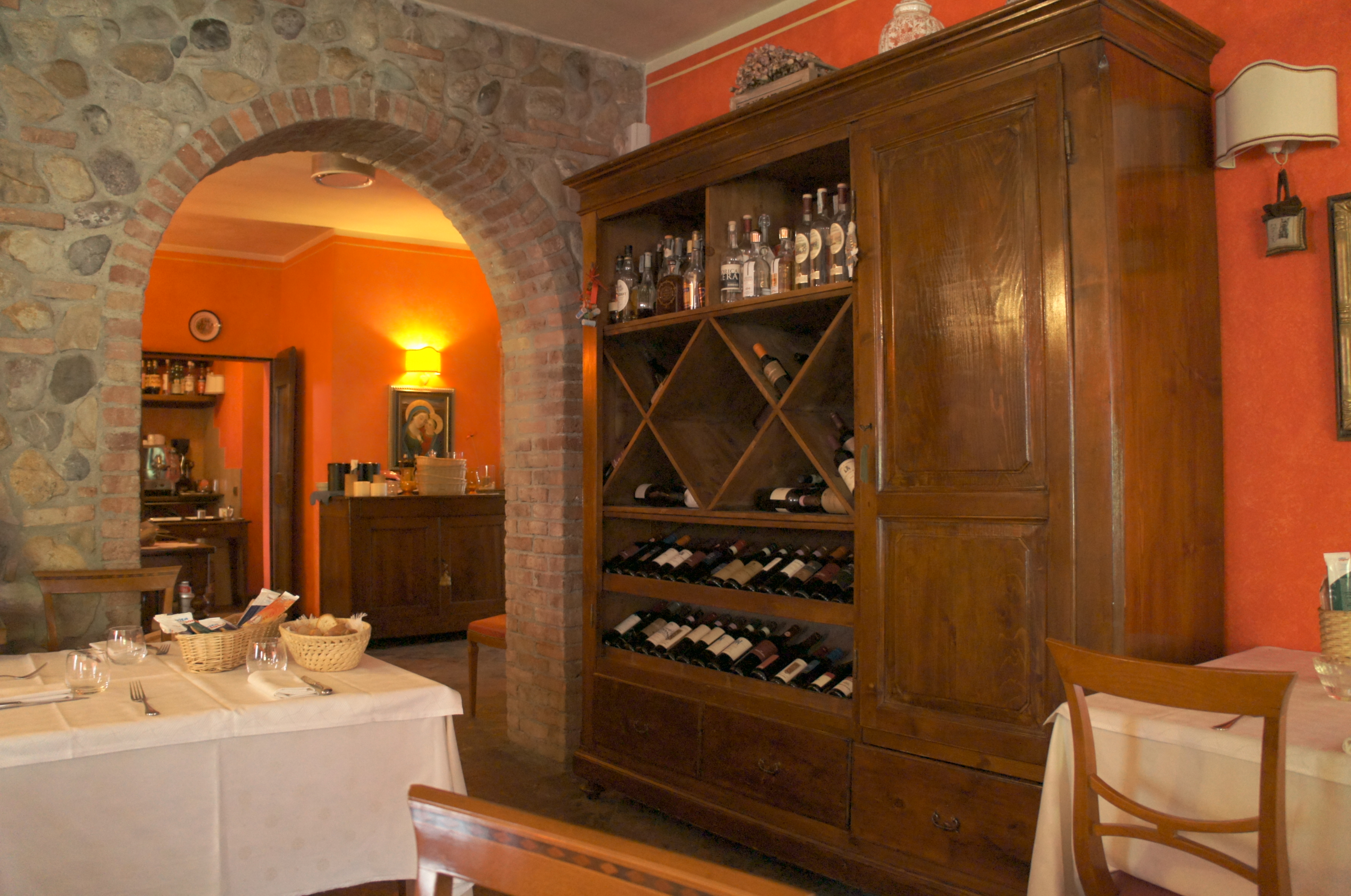 Opened in 2001, il Melograno is the first restaurant in Castel Rozzone. It is getting famous for it's Venetian cuisine, which attracts customers from the surrounding areas, including Milan.